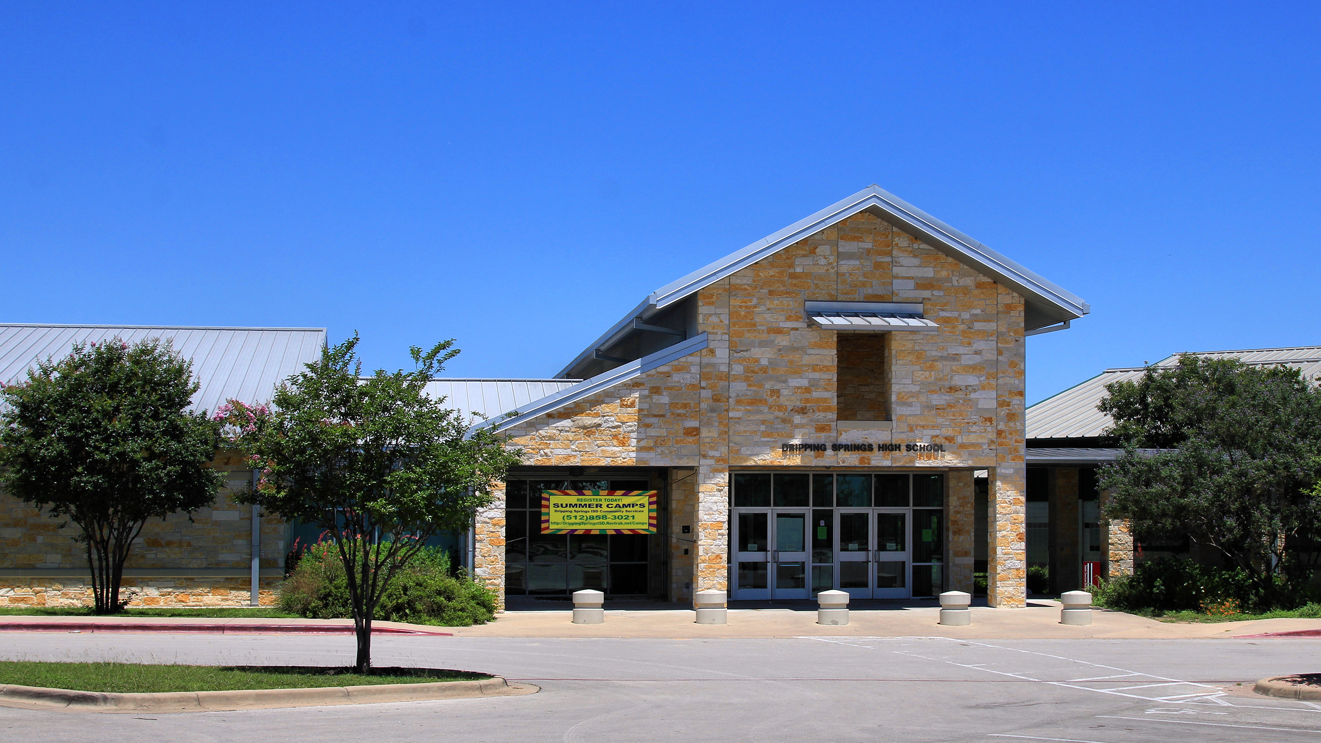 Main entrance to Dripping Springs High School in Dripping Springs, Texas, United States.